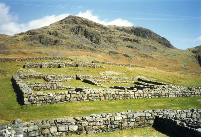 Roman fort at Hardknott